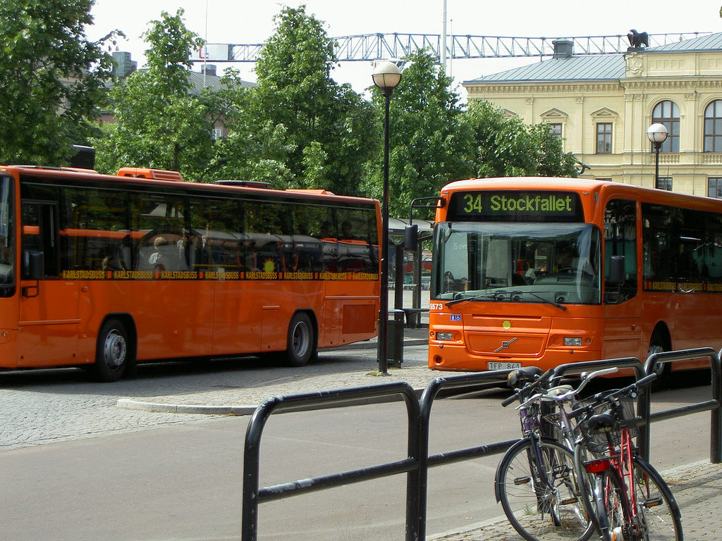 The new orange busses in Karlstad.